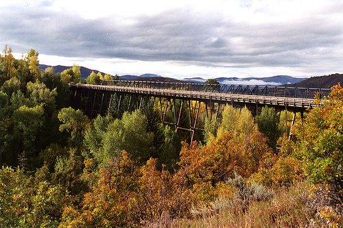 The Maroon Creek Bridge, Aspen, Colorado, USA.